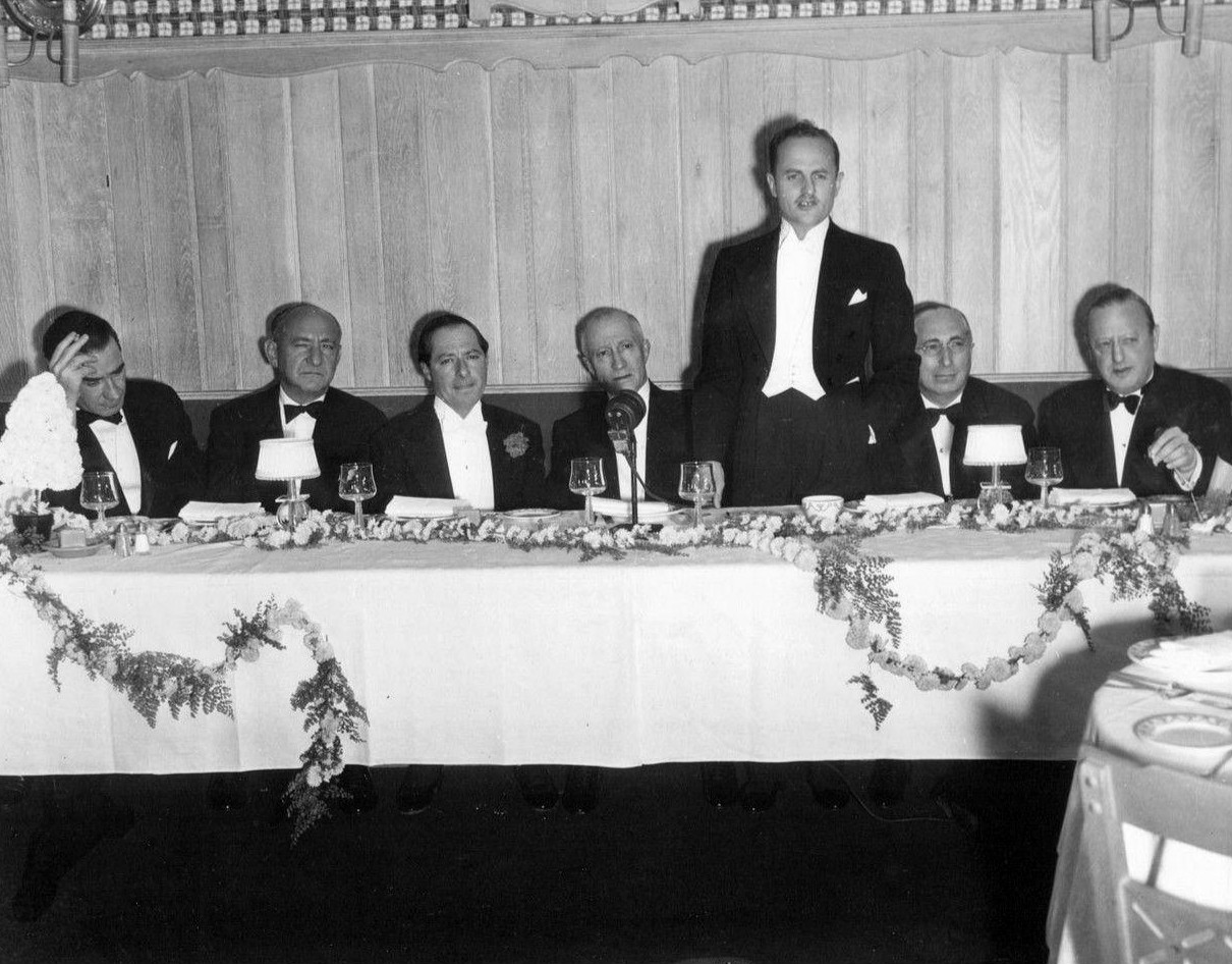 Photo of a dinner given by the motion picture industry to mark Adolph Zukor's 25th anniversary in the industry. The event was held at The Trocadero in 1936. From left-Frank Lloyd, Joe Schenck, George Jessel, Adolph Zukor, Darryl Zanuck, Louis B. Mayer, and Jesse Lasky.